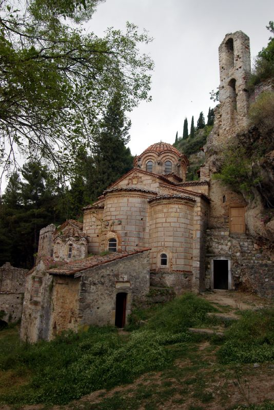 Monastery of Peribleptos in MystrasGrèce Greece Mystra 1